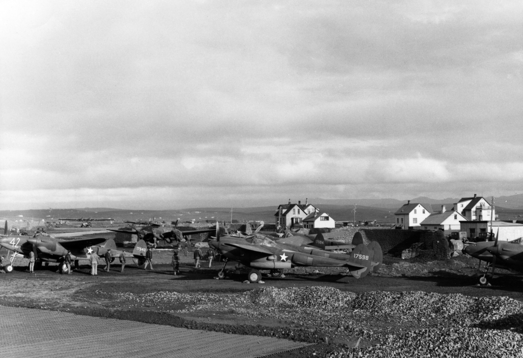 U.S. Army Air Forces Lockheed P-38F-1-LO Lightning fighters (identifiable are s/n: 41-7540, 41-7594, 41-7598) of the 1st Fighter Group during a refueling stop in Iceland on their way to England in the summer of 1942. 41-7540 was flown by Lt. Elza E. Shahan (27th Fighter Squadron) on 14 August 1942. He shot down a Focke-Wulf Fw 200 Condor over the Atlantic, together with 2nd Lieutenant Joseph Shaffer of the 33rd FS Squadron, 8th FG, (flying a Curtiss P-40C). This was the first USAAF victory over a German aircraft in World War II.